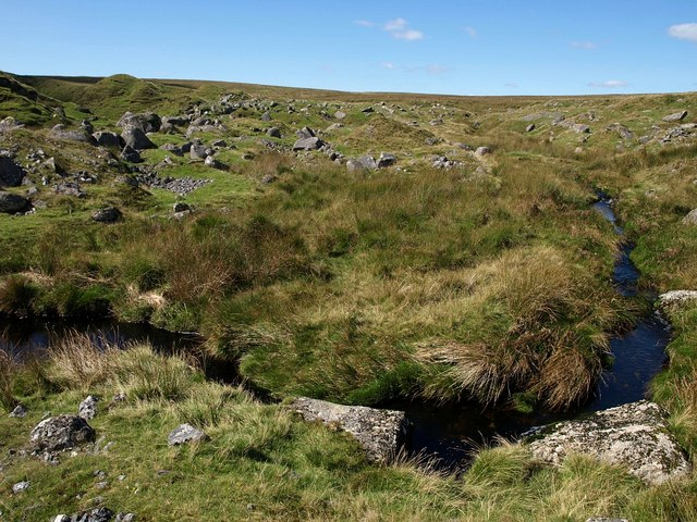 River Erme below Erme Pits. The infant river performs a little double bend as it leaves the area of 1485024 in the background.